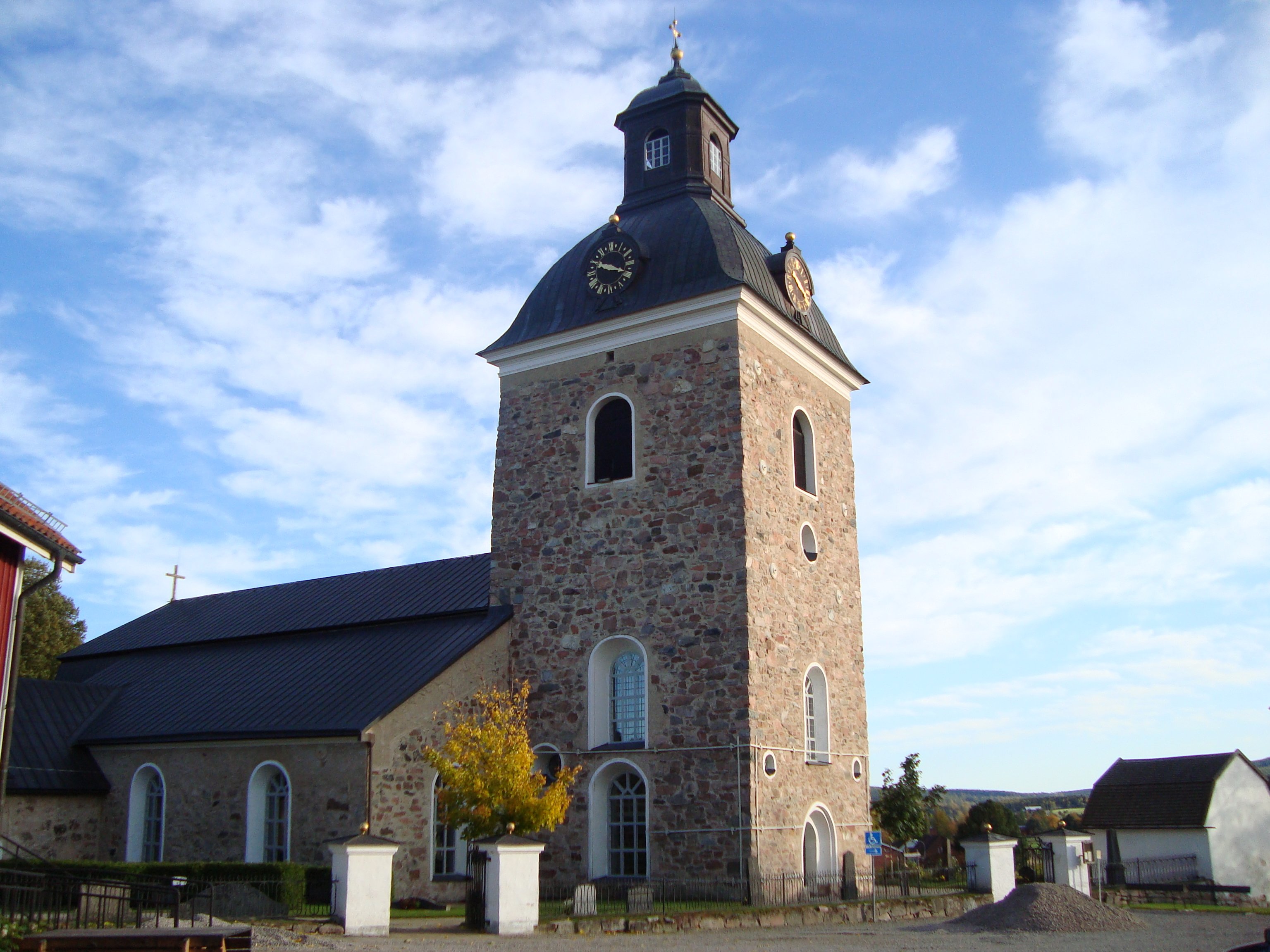 Church of Stora Skedvi, from the 13th century. View from the parking. Säter municipality, Sweden